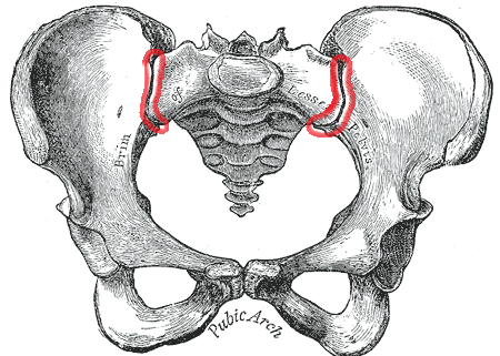 Sacroiliac Joint